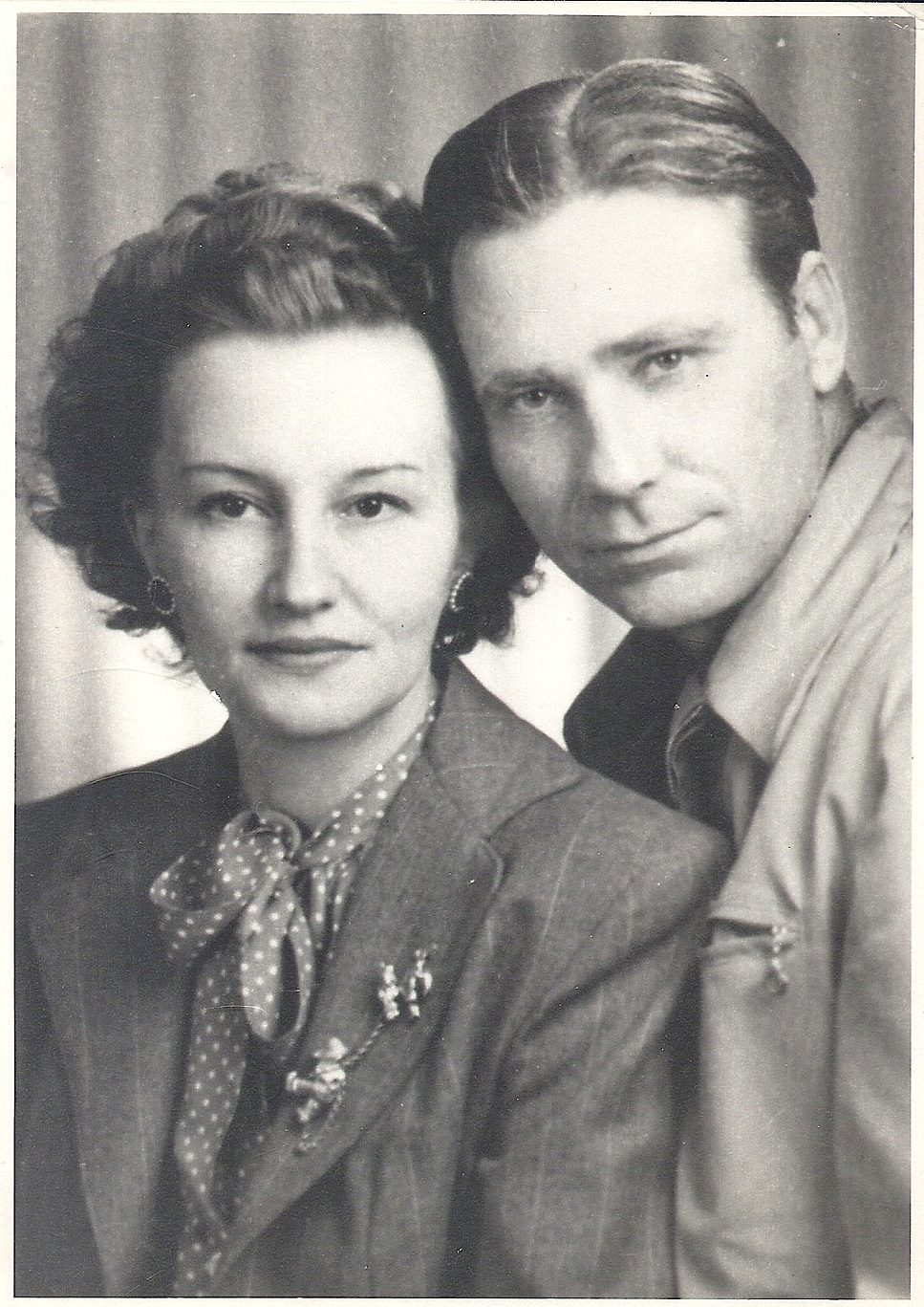 Wedding photo